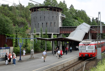 Slependen Station of the Drammen Line in Bærum, Norway. A Class 69 train.